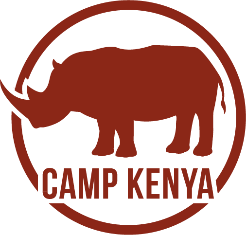 Logo for Camp Kenya, a subsidiary of Camps International.